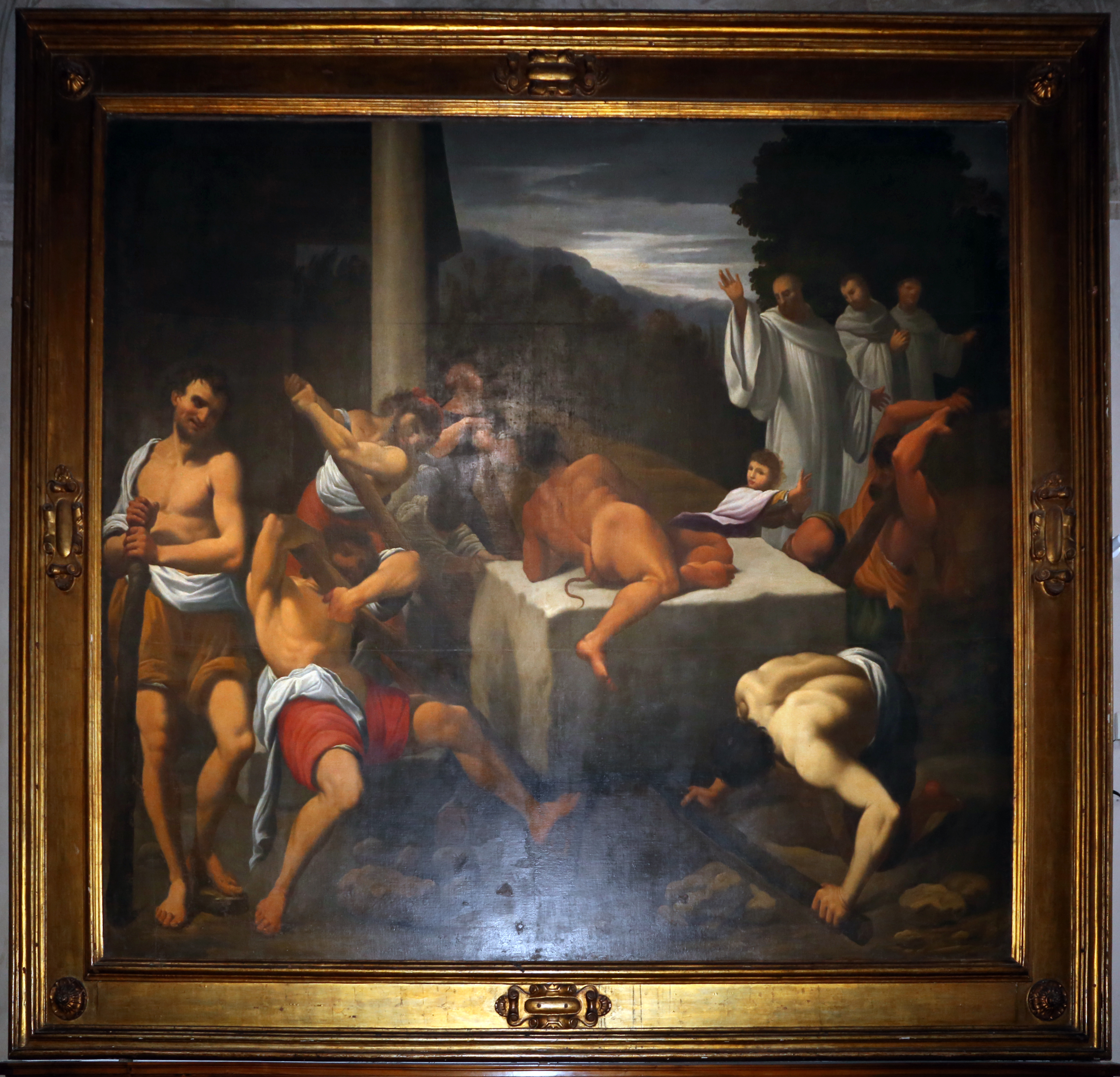 San Giorgio fuori le Mura (Ferrara)